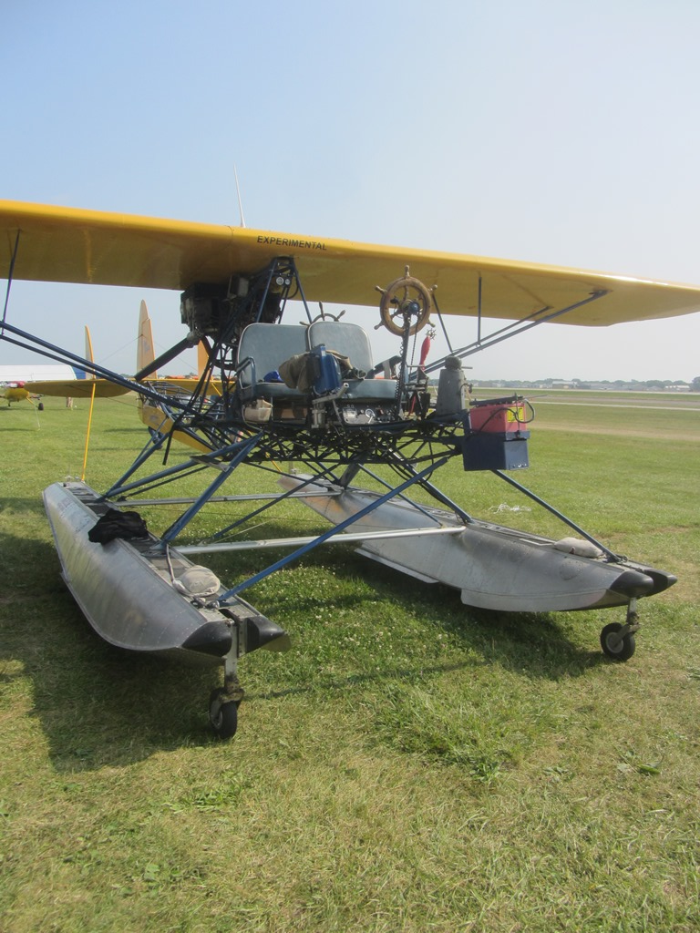 RLU-1 Beezy